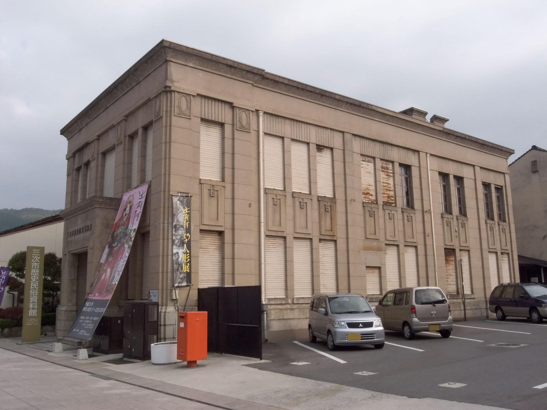 Miyoshi museum of history, Miyoshi, Hiroshima, Japan